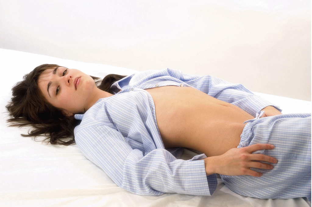 Girl in pyjamas with an open shirt showing off her belly.